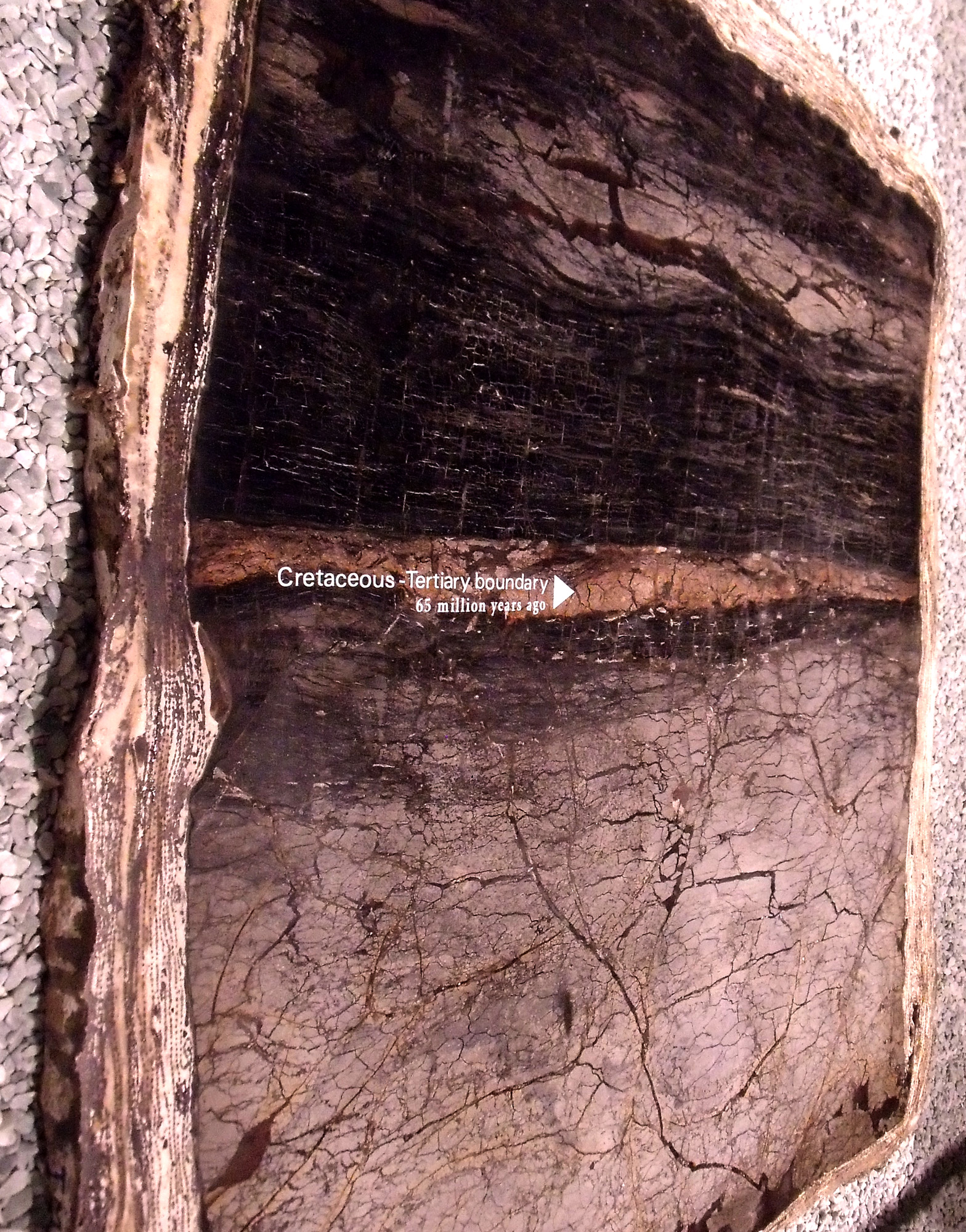 The effect of the Chicxulub impact crater on our world was like the Blues Bros tribute to throwing rubber biscuits at walls. And if your species wasn't small, non-specialized and widespread, you go extinct. Below the globe-spanning iridium-bearing clay layer is 186 million years worth of dinosaurian reign. Above the clay is 65.5 million years of mammalian, avian and insecta diversification. Former Cretaceous-Tertiary or KT has now been renamed K-Pg for Cretaceous-Paleogene boundary. Panel of the KT boundary from southern Alberta, Canada in the Royal Tyrrell Museum. This thin white line has become our planet's most compelling message of unpredictable unstoppable catastrophe. Here's a link to Royal Tyrrell Museum's annotated image of this strat box Here's a link to my pix of the much older Sudbury impact event captured in Proterozoic rocks